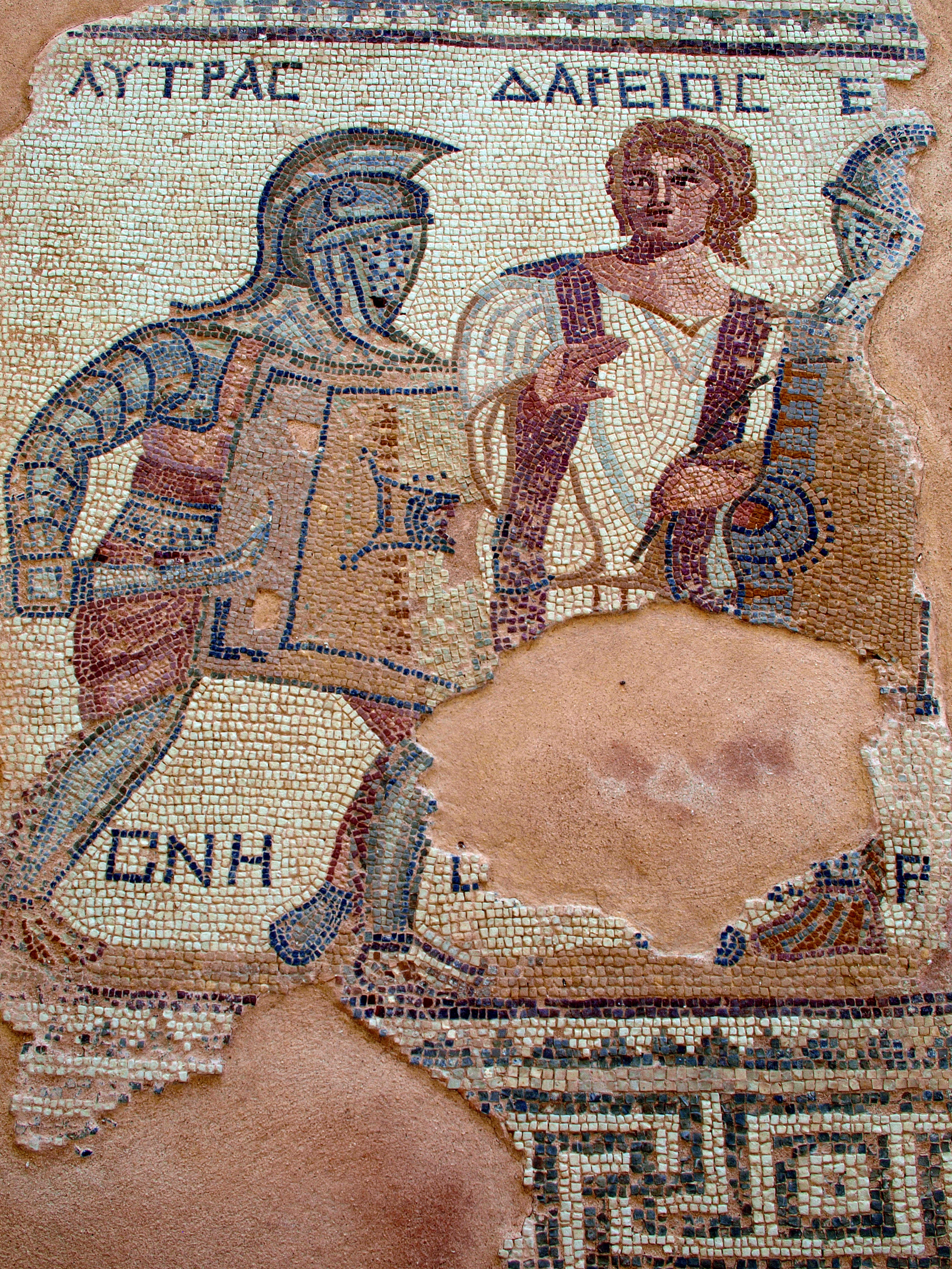 Mosaic depicting a gladiators fight. The House of the Gladiators, Kourion, Cyprus.